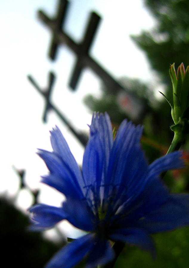 Kurapaty near Minsk is the place where mass executions of Belarusian civilians were carried out during the Stalin regime (1937 - 1941) Беларуская (тарашкевіца): Урочышча Курапаты пад Менскам — месца масавых расстрэлаў і пахаваньняў беларускіх цывільных асобаў, зьдзейсьненыя падчас сталінскіх рэпрэсіяў у 1937—1941 гадох